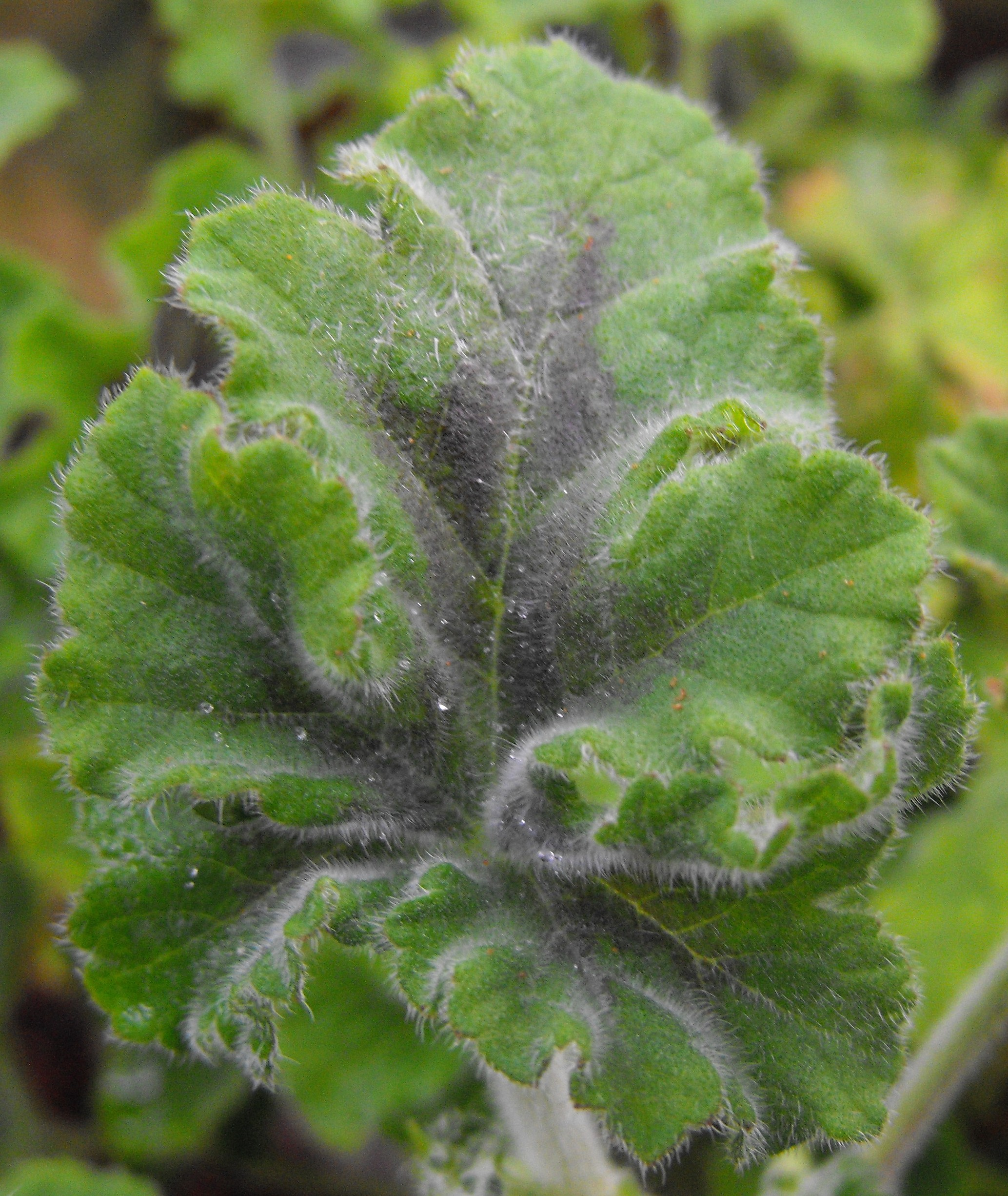 Pelargonium tomentosum 'Chocolate Mint' in the Botanical Bldg., Balboa Park, San Diego, California, USA.